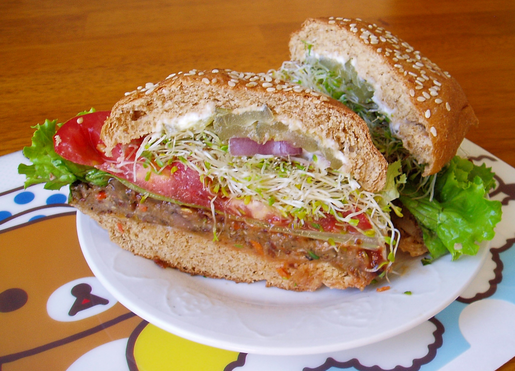 Down To Earth Burger: Maui Taro Burger Patty. Vegenaise, Ketchup, Relish, Tomatoes, Onion, Sprouts, Pickles, Lettuce, and Swiss or Jack Cheese on a Whole Wheat Bun